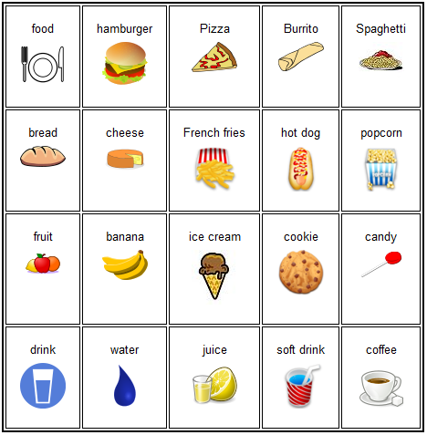 Self-made sample page from a low-tech Augmentative and alternative communication aid